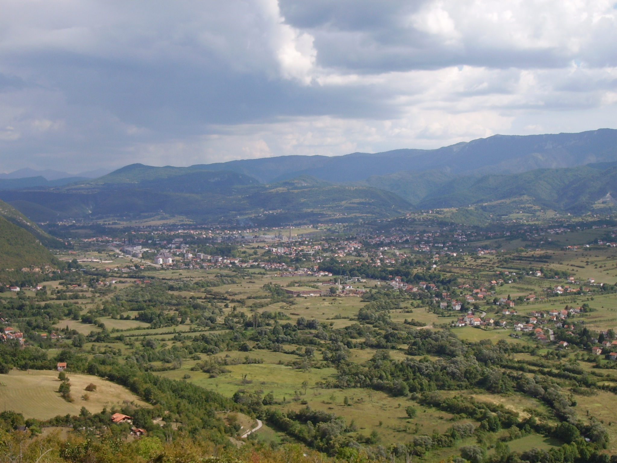 View on Drvar, Bosnia, from northwest.